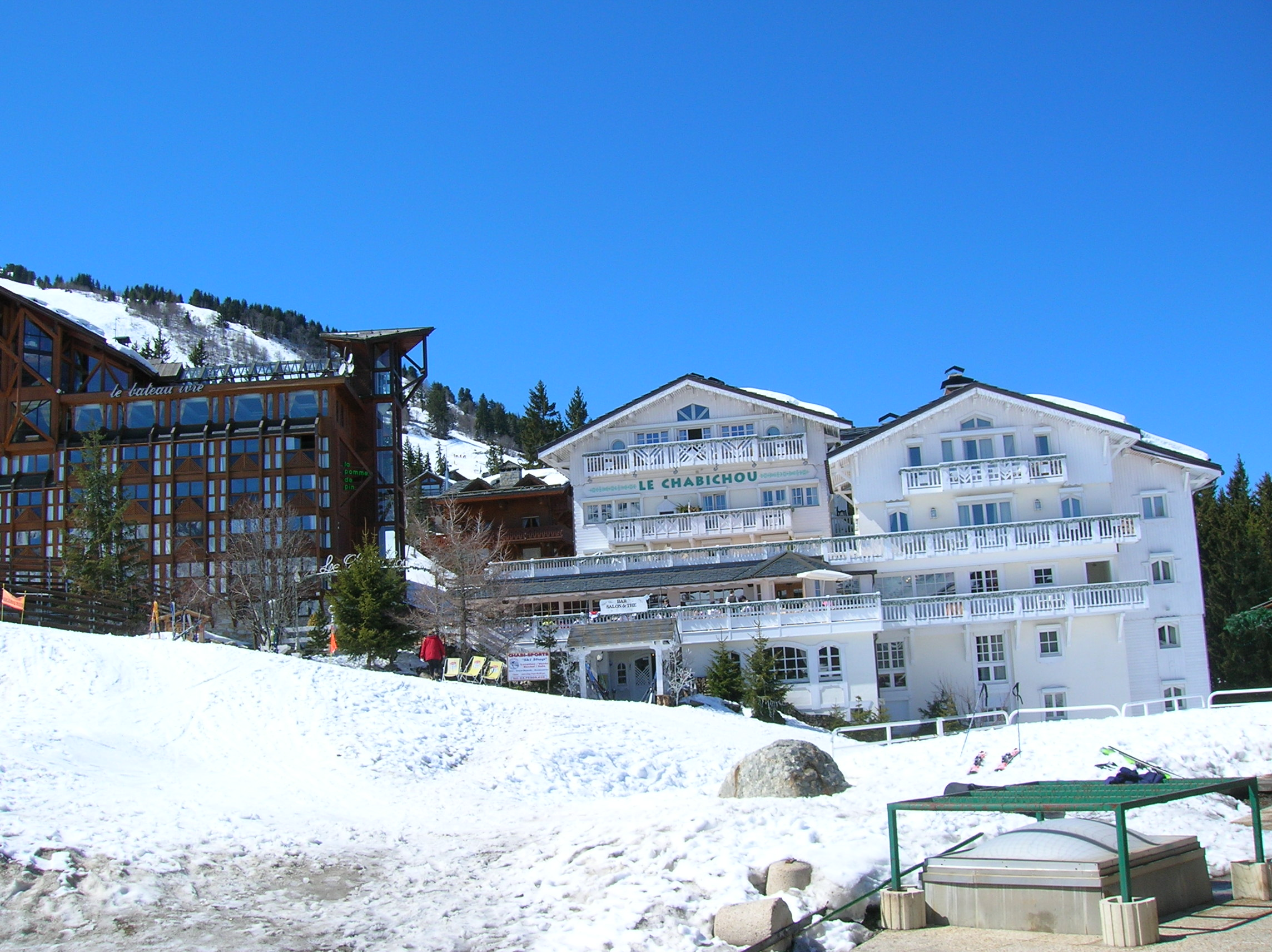 Courchevel 1850 (Saint-Bon) in Savoie (French Alps)